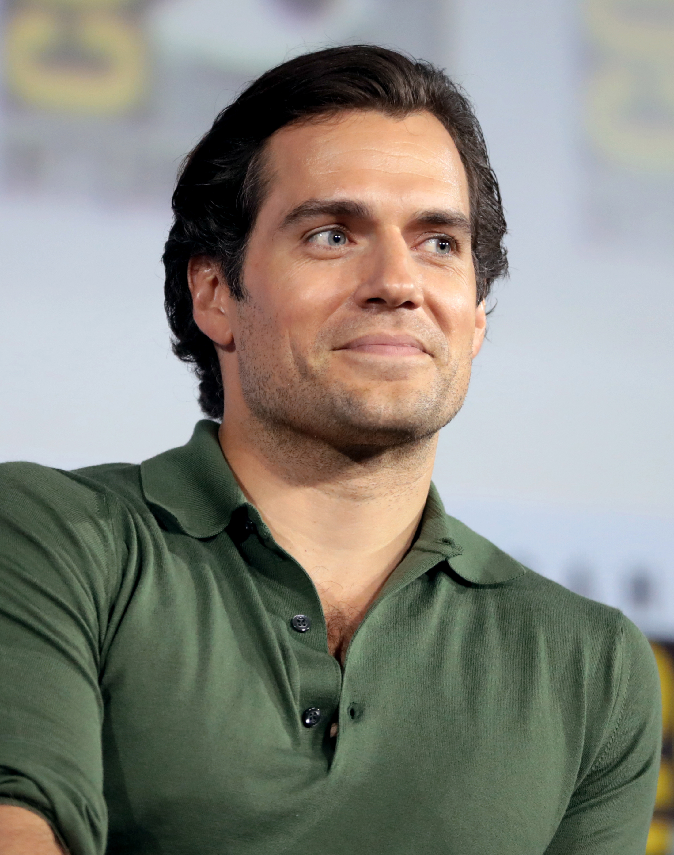 Henry Cavill speaking at the 2019 San Diego Comic-Con International in San Diego, California.